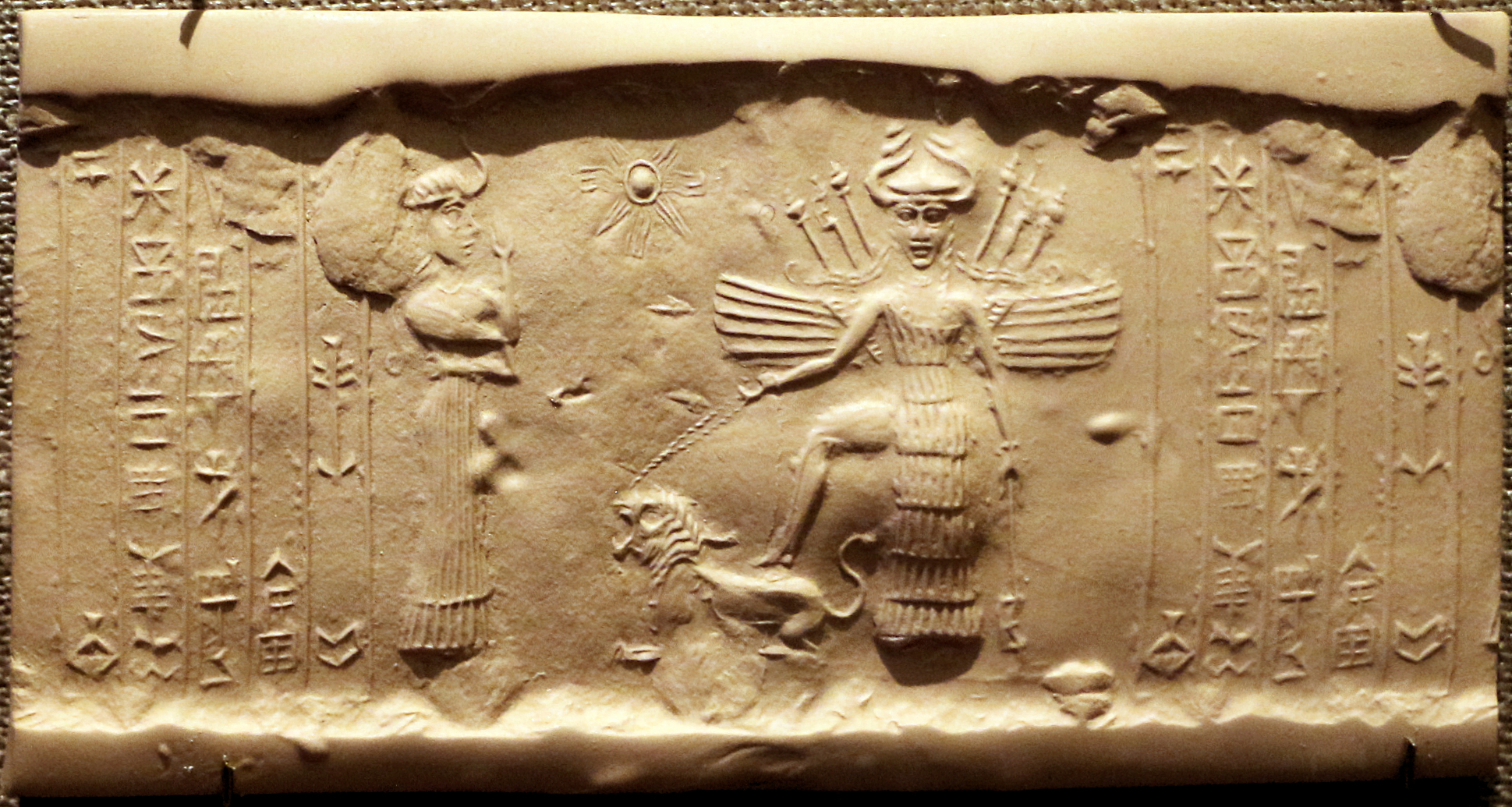 Seal of Inanna, 2350-2150 BCE